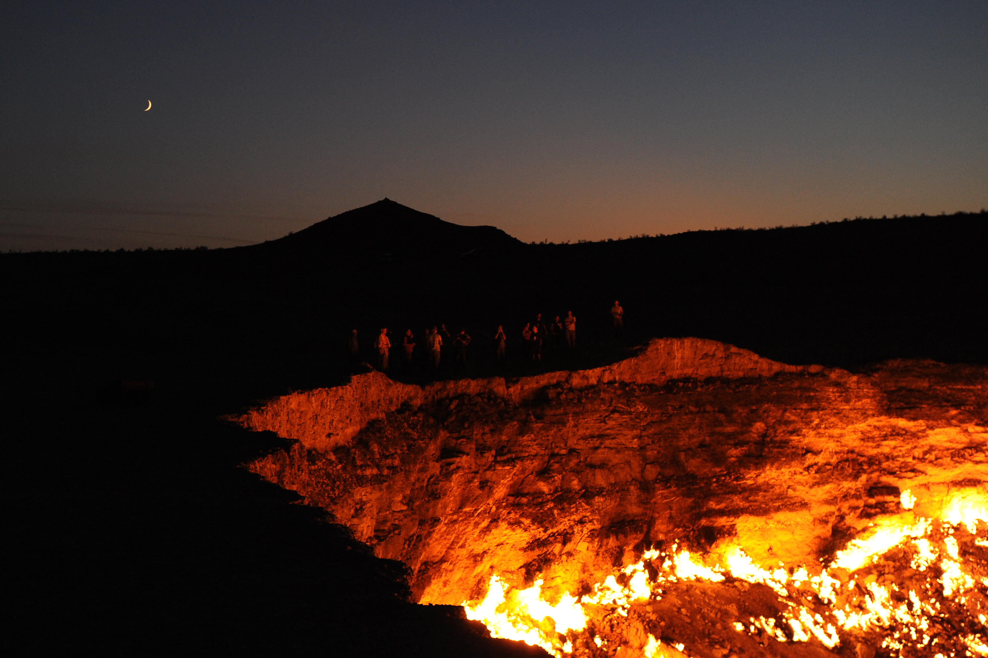 Standing on the edge of the Darvasa gas crater in Turkmenistan.